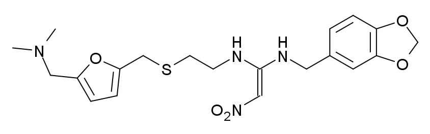 Structural formula of the H2 antagonist Niperotidine